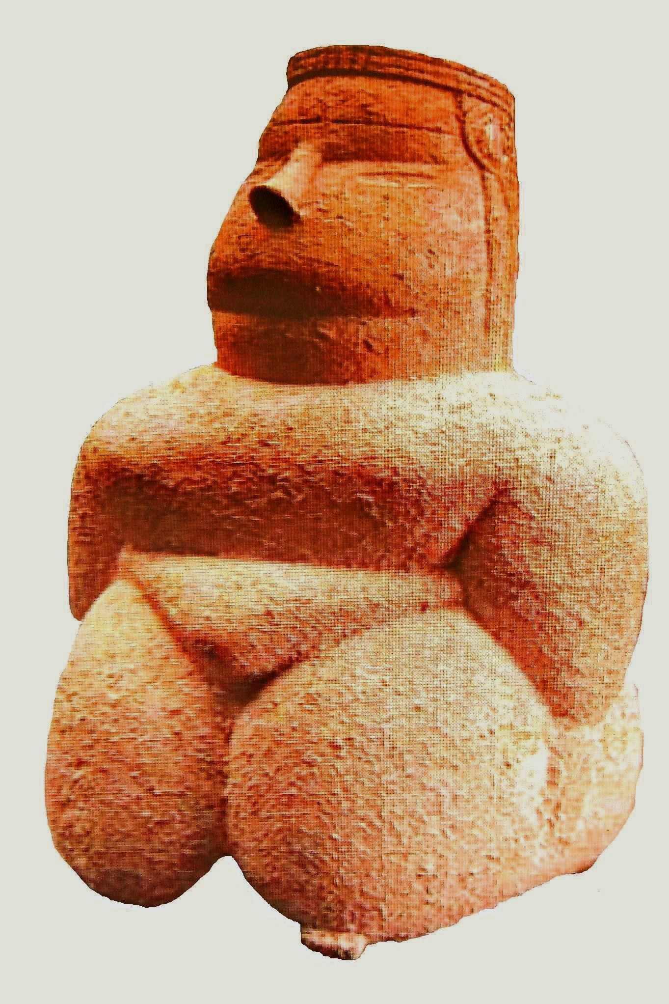 The great neolithic mother from Cuccurru s'arriu, National Archelogical Museum, Cagliari